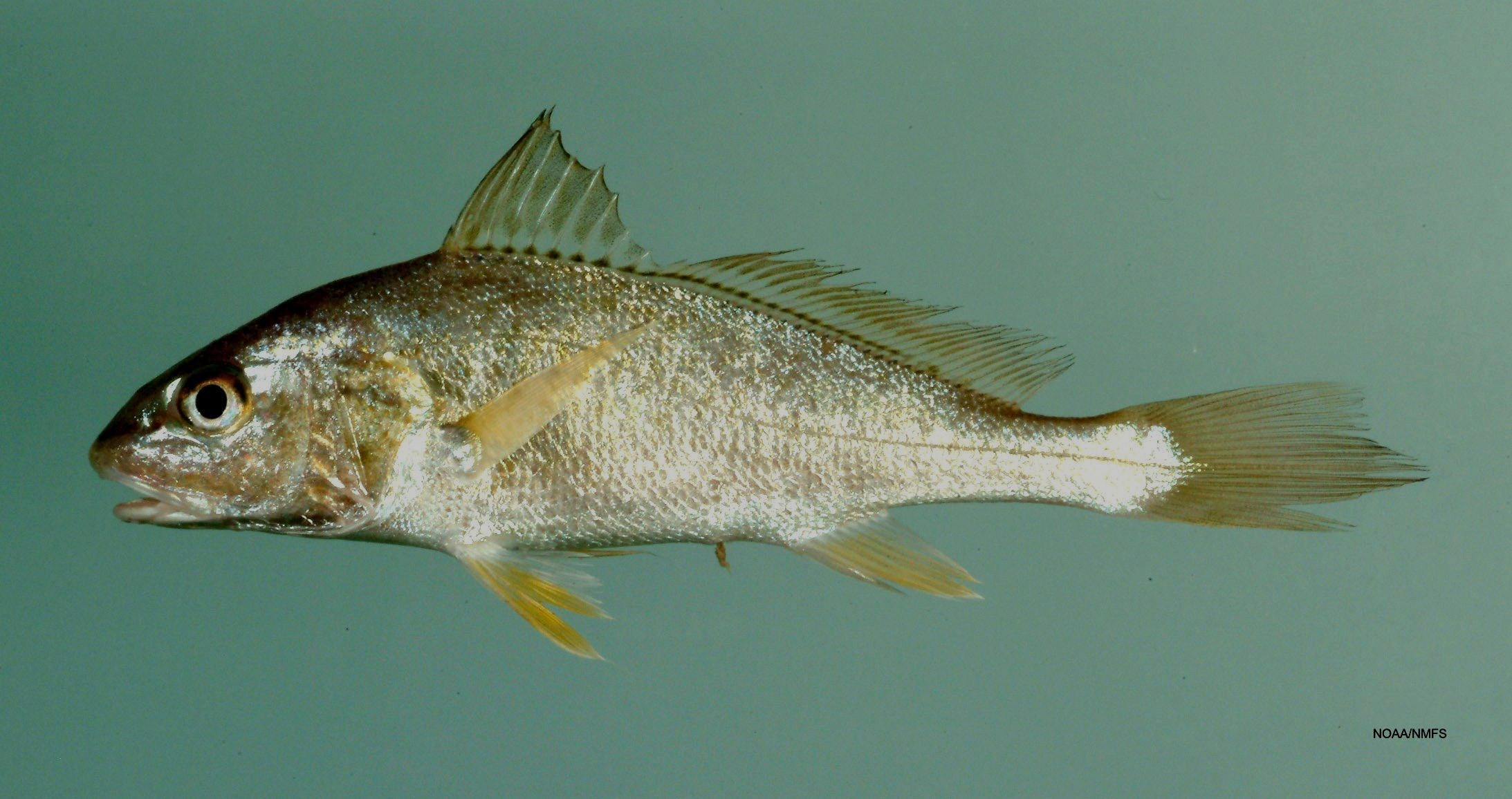 Atlantic croaker (Micropogonias undulatus). Gulf of Mexico.